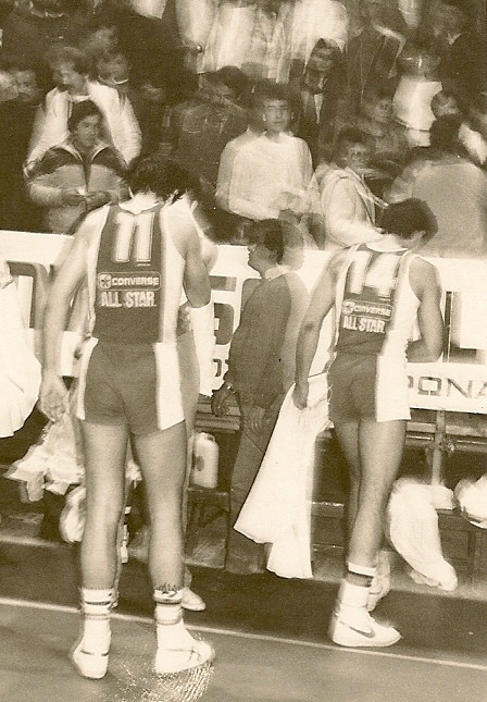 Aiolos Basketball Player Chris Roupas #14 walks to the bench during a game against Panellinios.